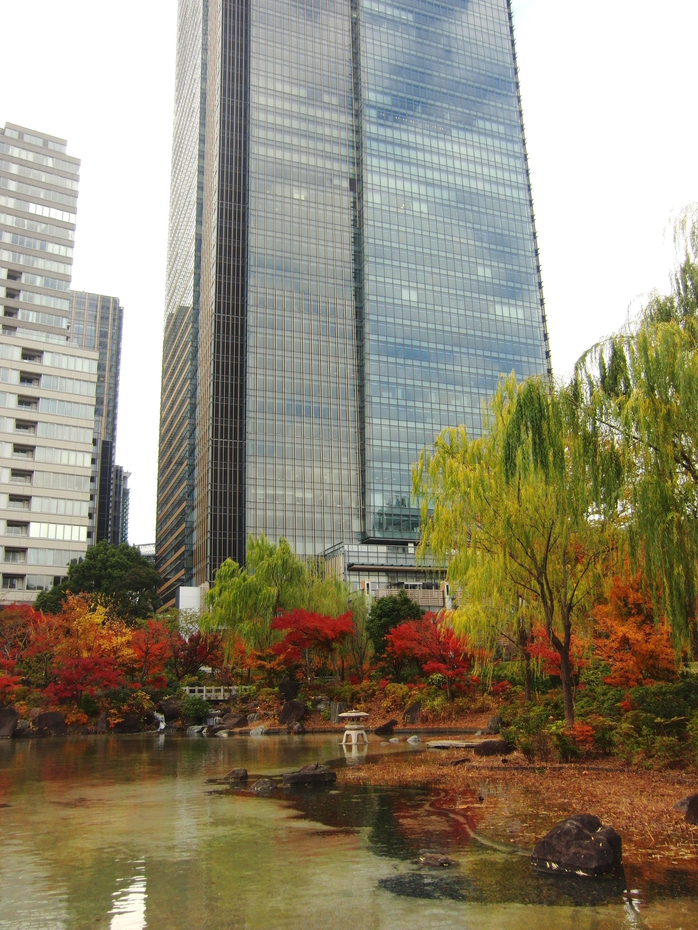 The pond in the Hinokicho Park, Akasaka, Minato, Tokyo, Japan. The building which appears back is the Midtown Tower in the Tokyo Midtown.